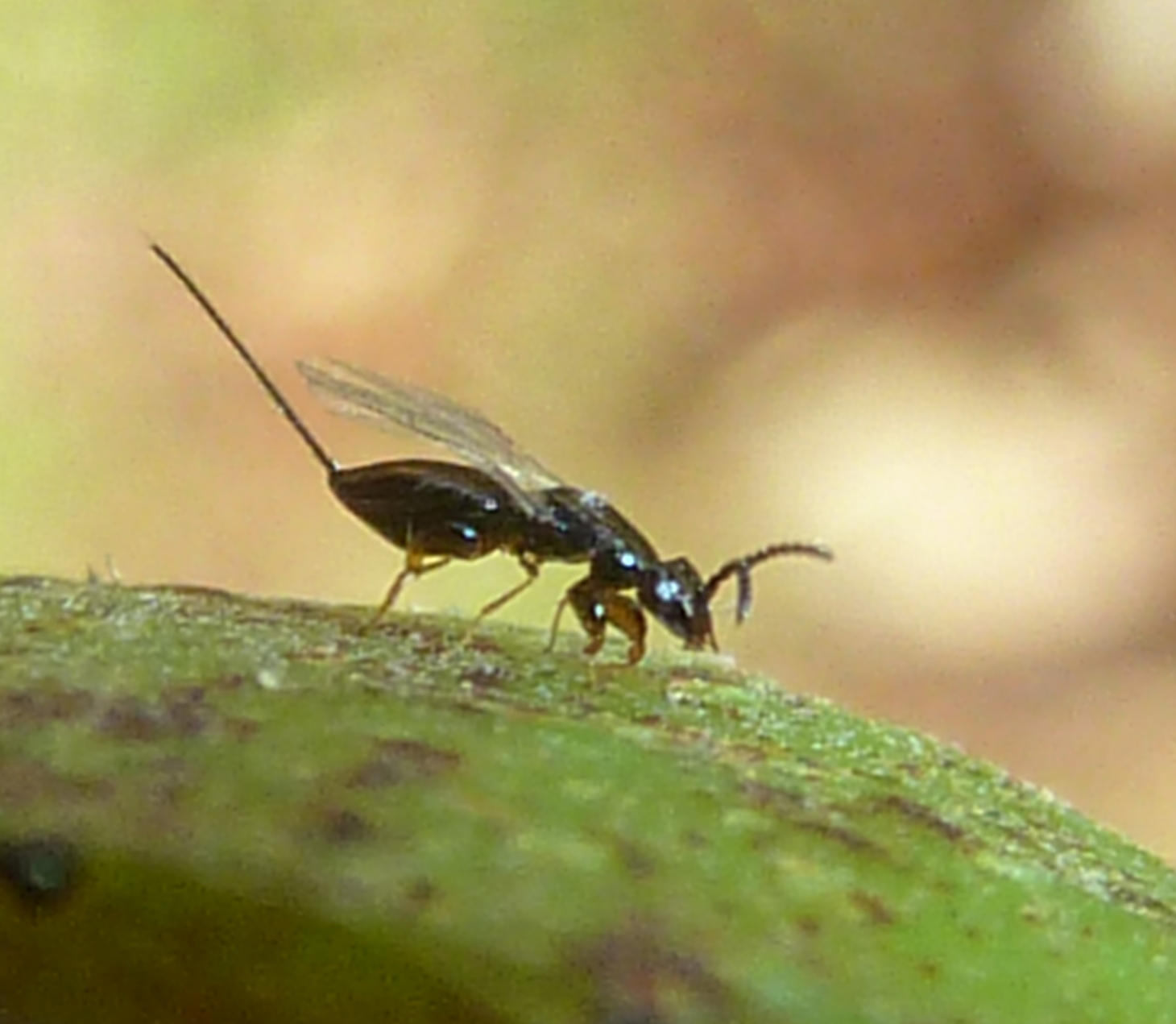 Sycophaga sp. gall wasp on Ficus sur, Jan Celliers Park